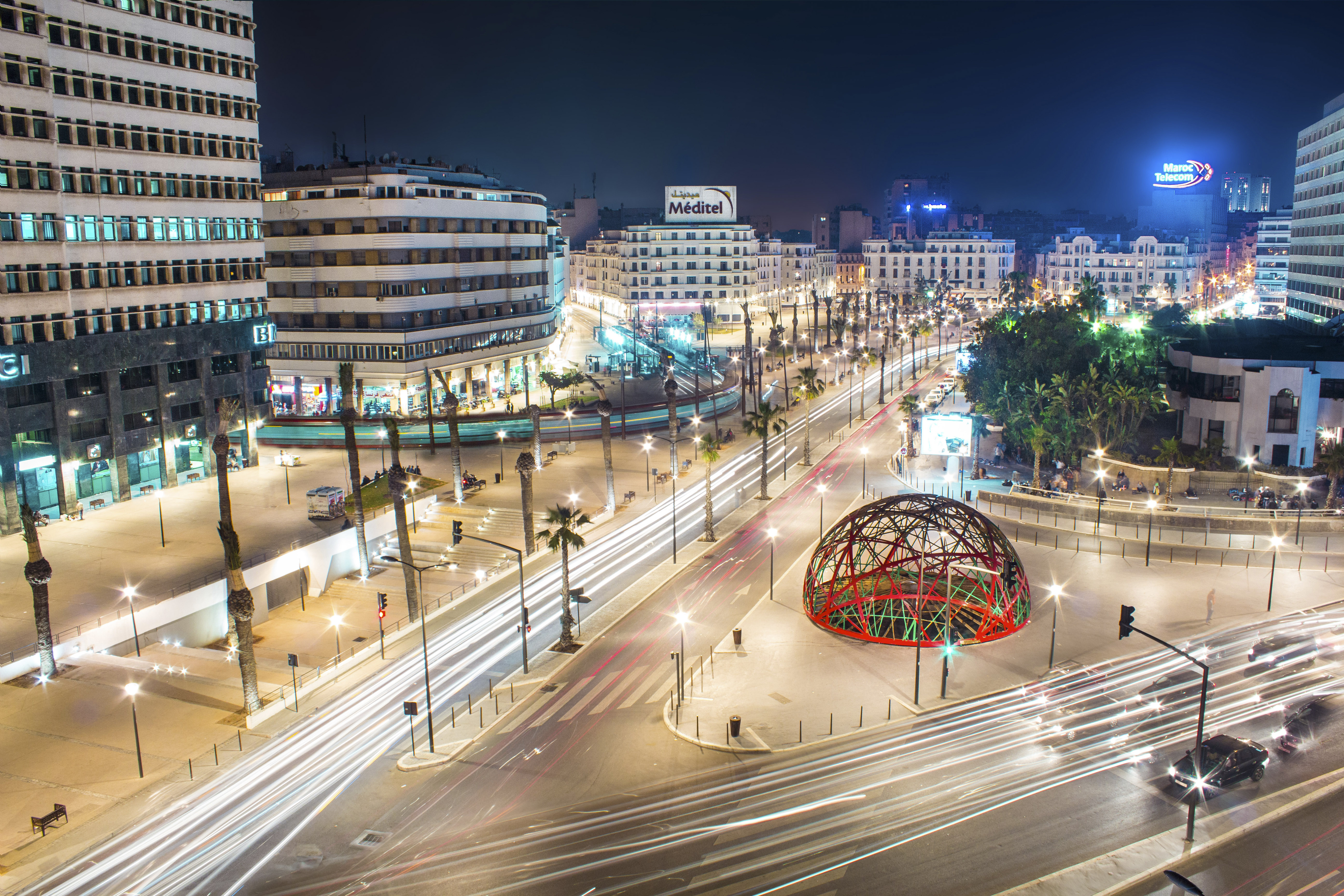 Crossing Boulevard Hassan I with the Avenue des FAR, seen from the place of the United Nations, Casablanca